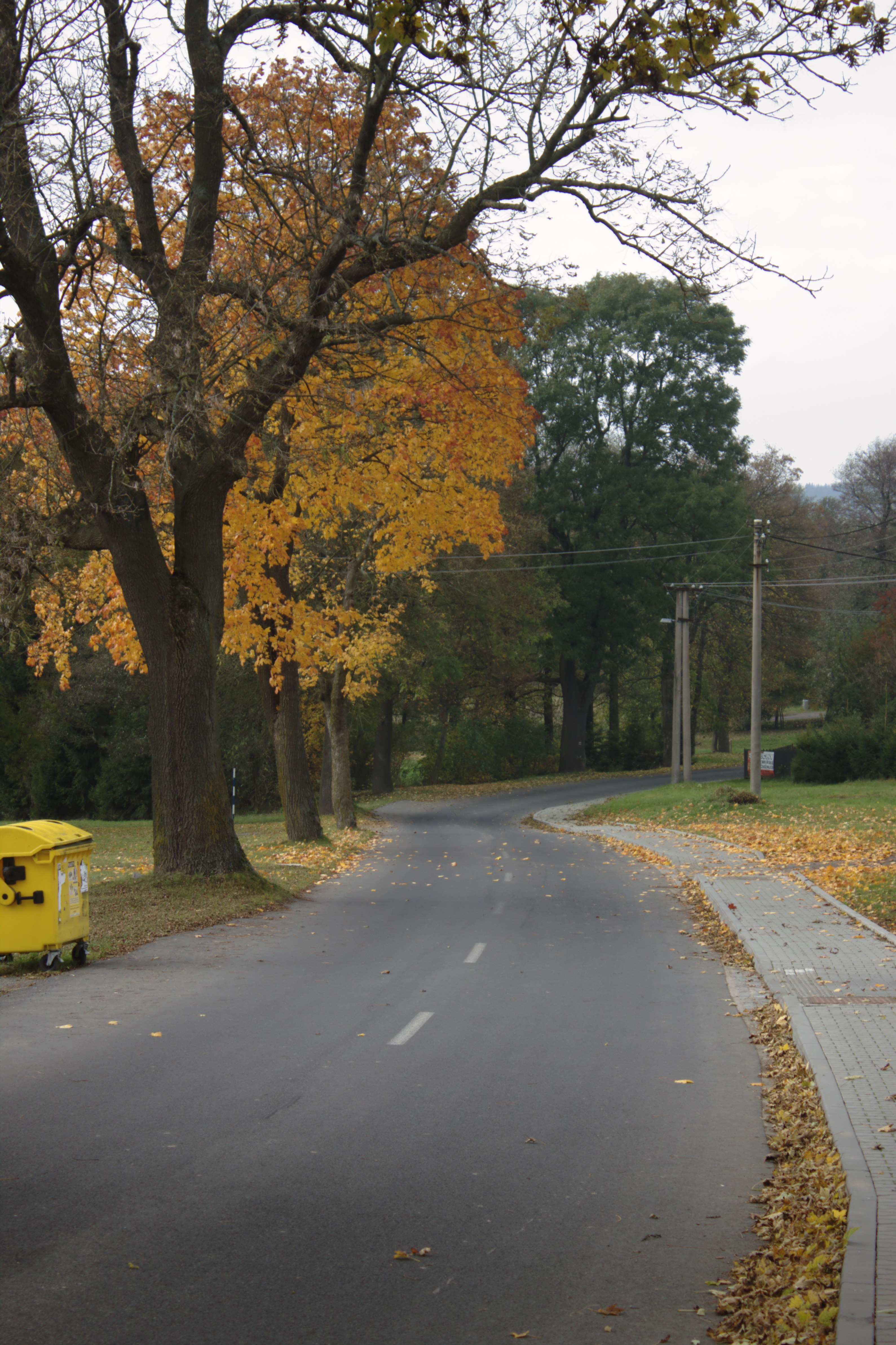 Main road in Křišťanovice, Moravian-Silesian Region, CZ